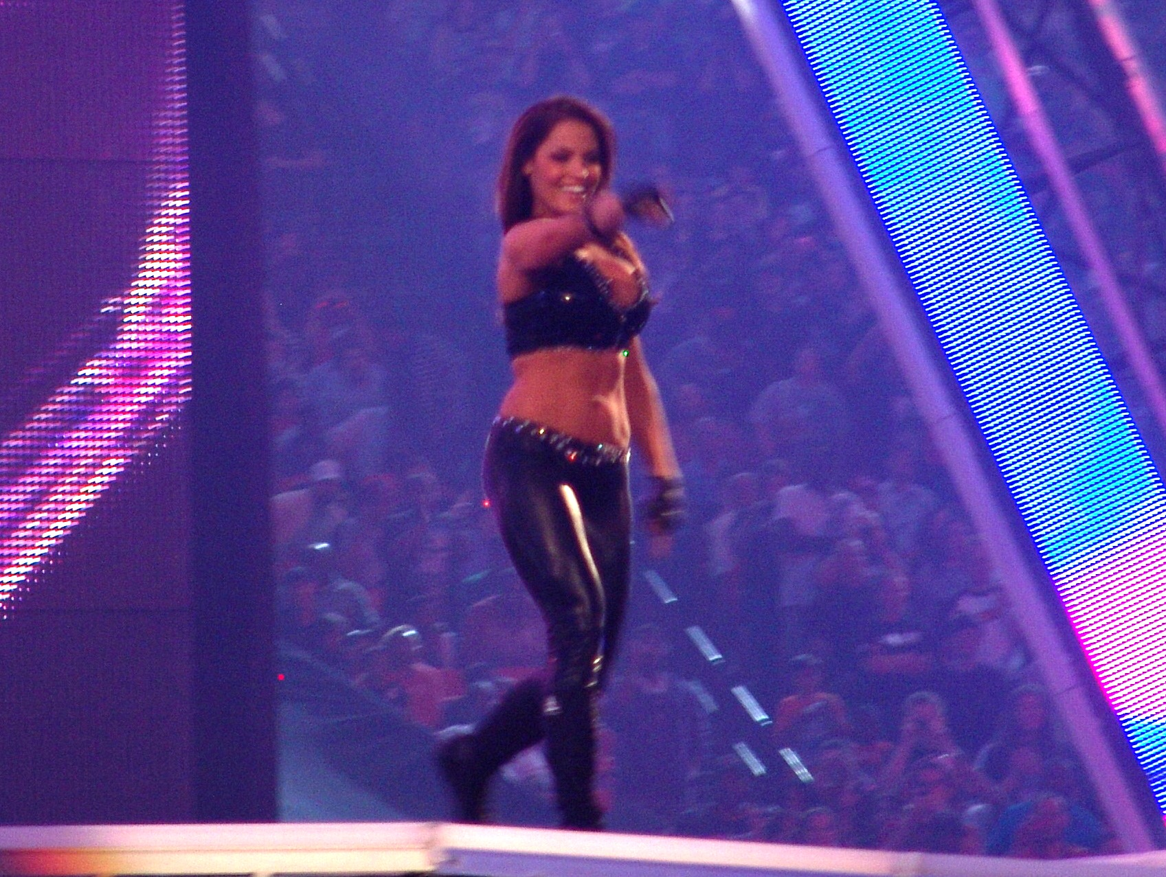 Trish Stratus entrando en WM 27